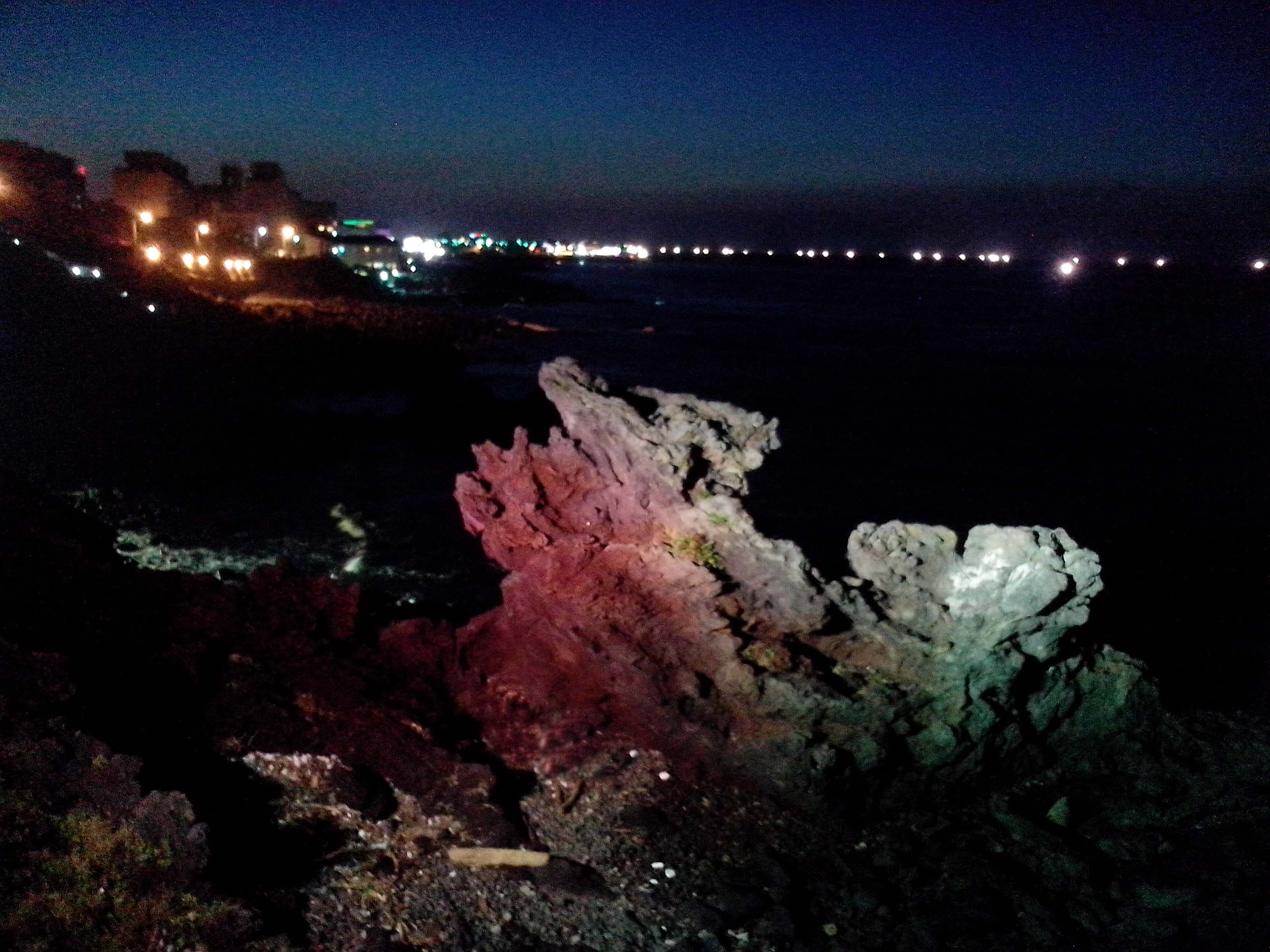 Dragon Head Rock, Jeju, South Korea